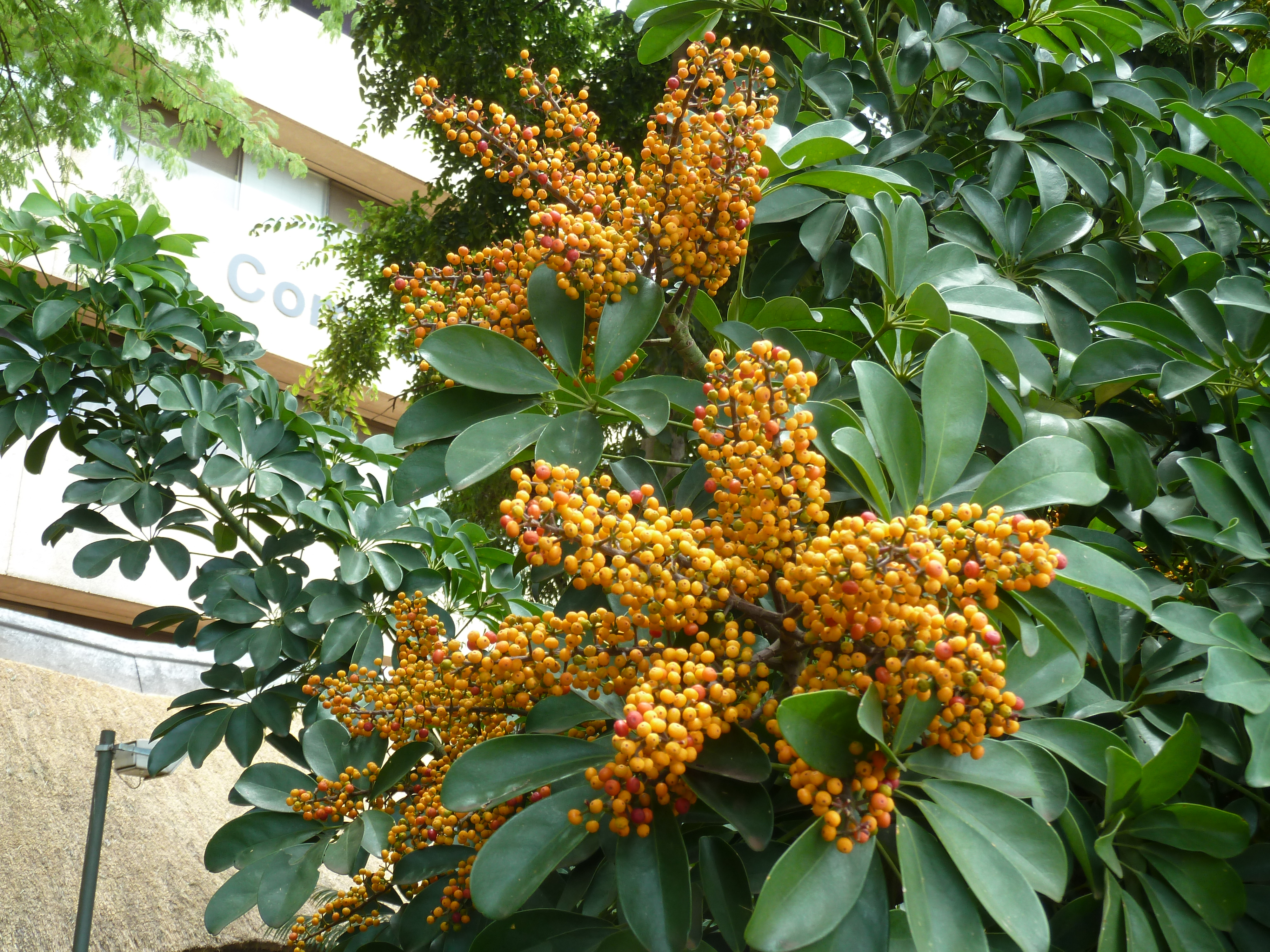 Fruit of Schefflera arboricola